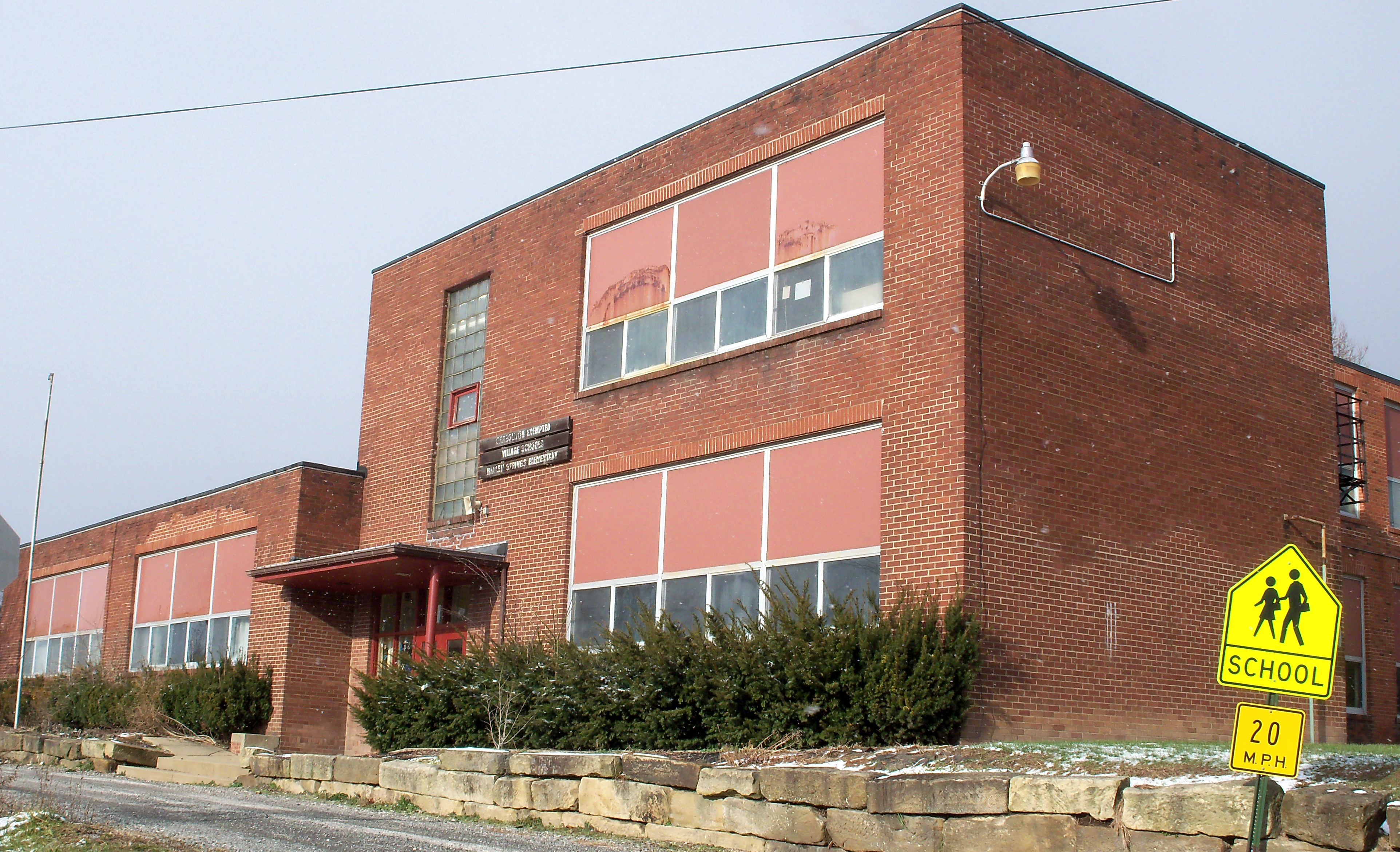 Harlem Springs Elementary School in Harlem Springs, Ohio.